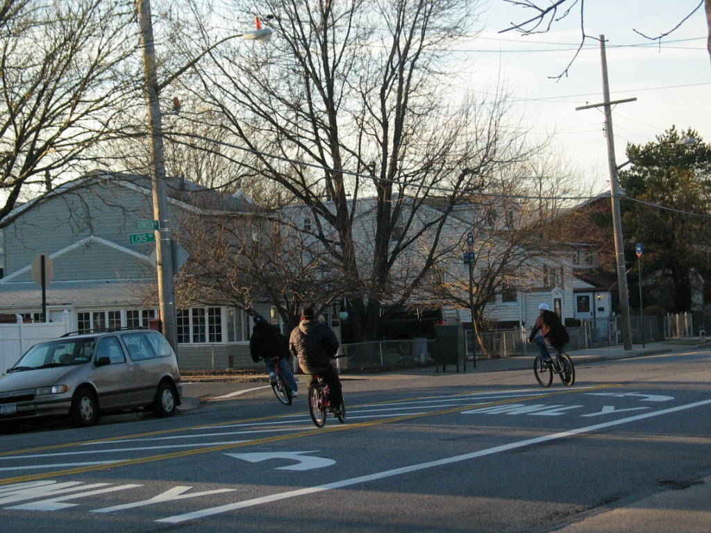 The closer to its end Bikers can use it in full width.